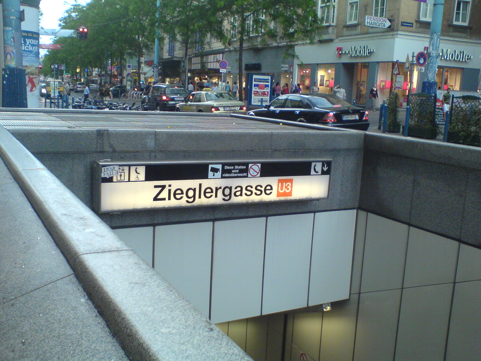 Vienna U3 underground station Zieglergasse